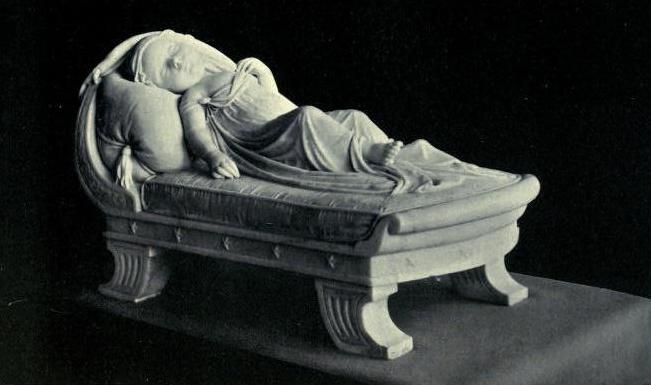 Recumbent effigy of Princess Elizabeth of Clarence (daughter of William IV) by William Scoular (died 1854) in the Grand Corridor of Windsor Castle. Dimensions: 38.0 x 78.0 x 33.0 cm. Bequeathed to Queen Victoria by Queen Adelaide, 1849. RCIN 53354